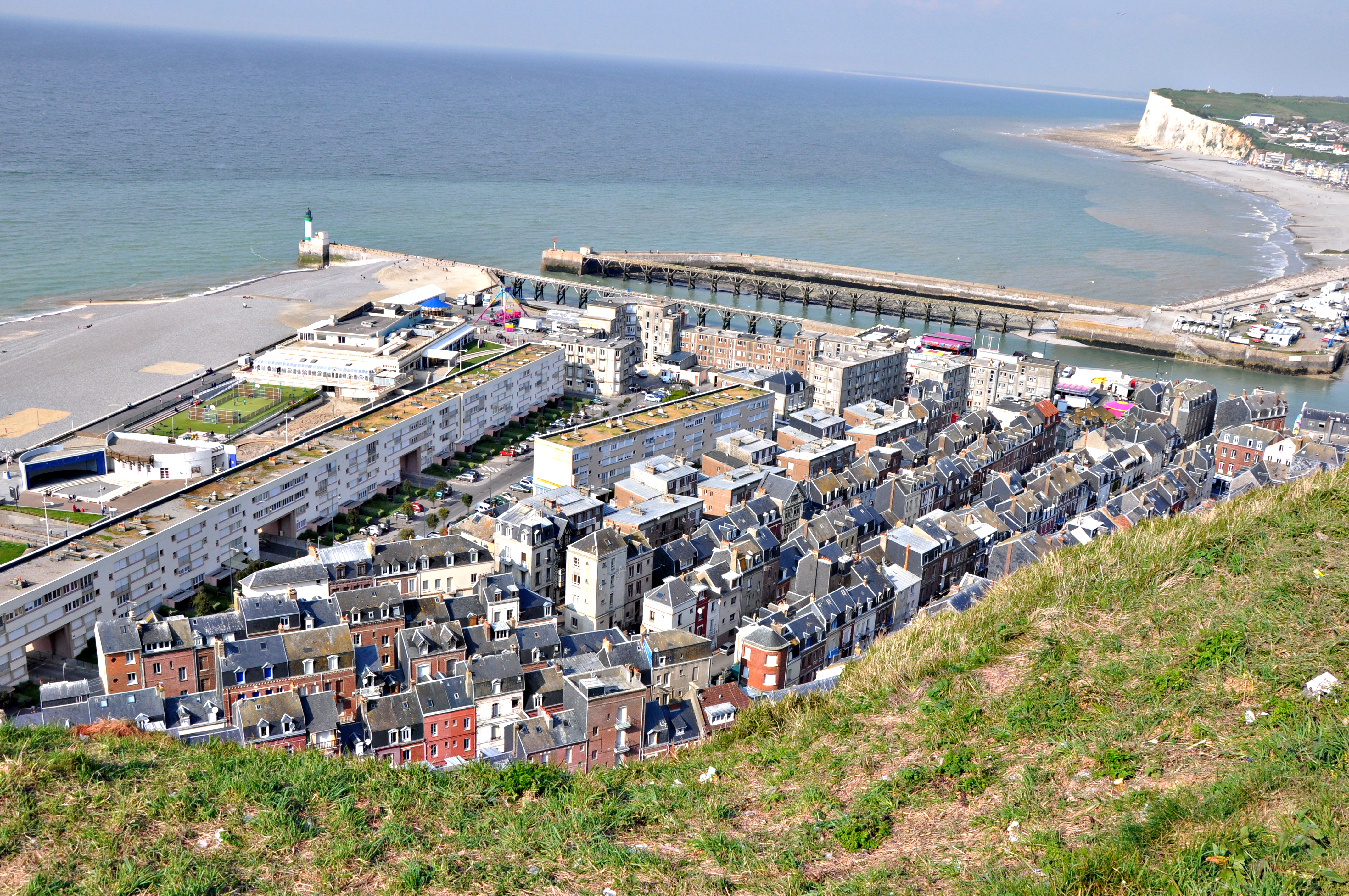 Le Tréport (France, Normandy) from cliff